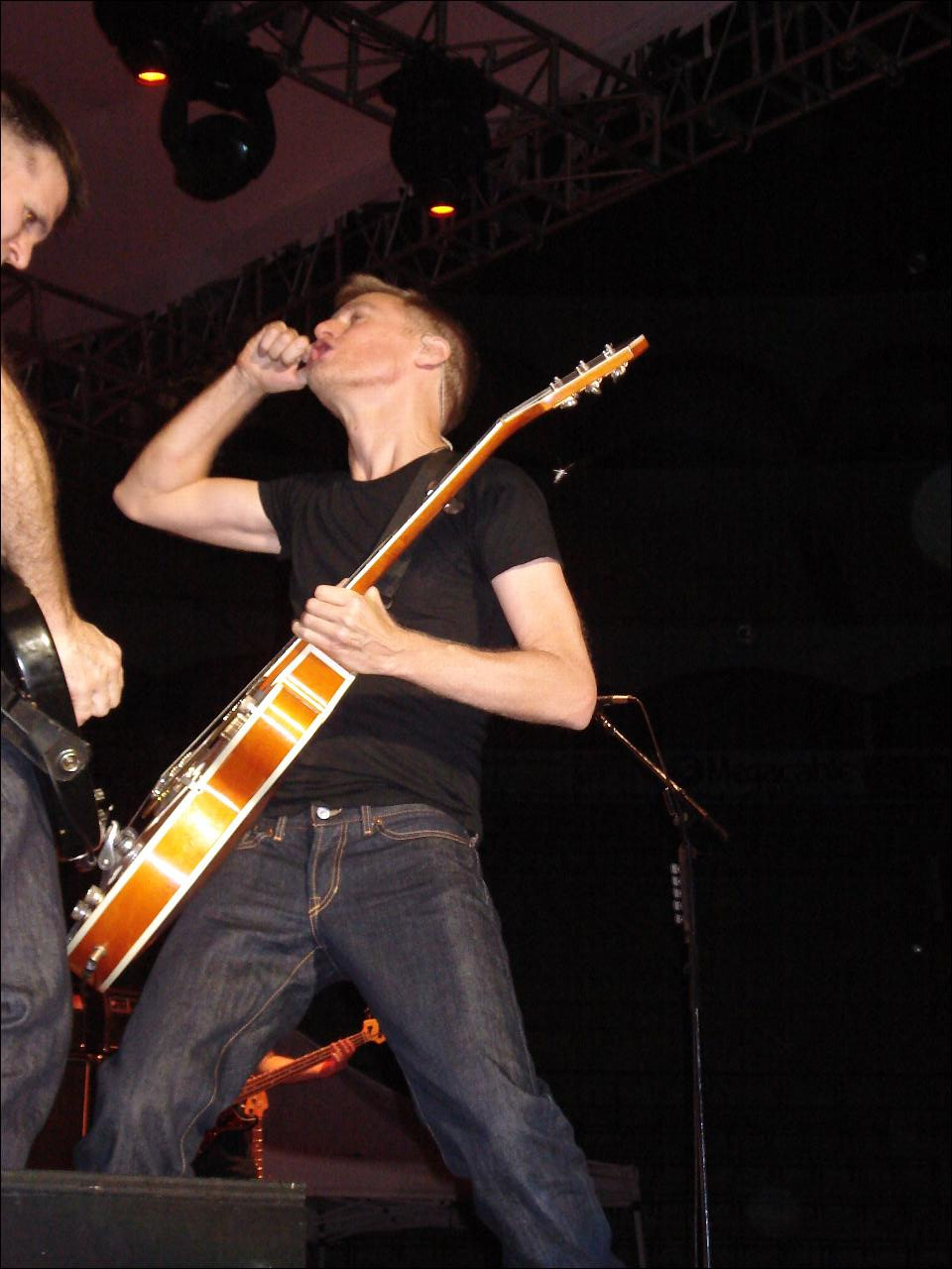 Bryan Adams live in Guadalajara, Mexico, on October 27, 2006